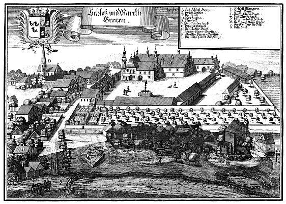 Castle Gerzen